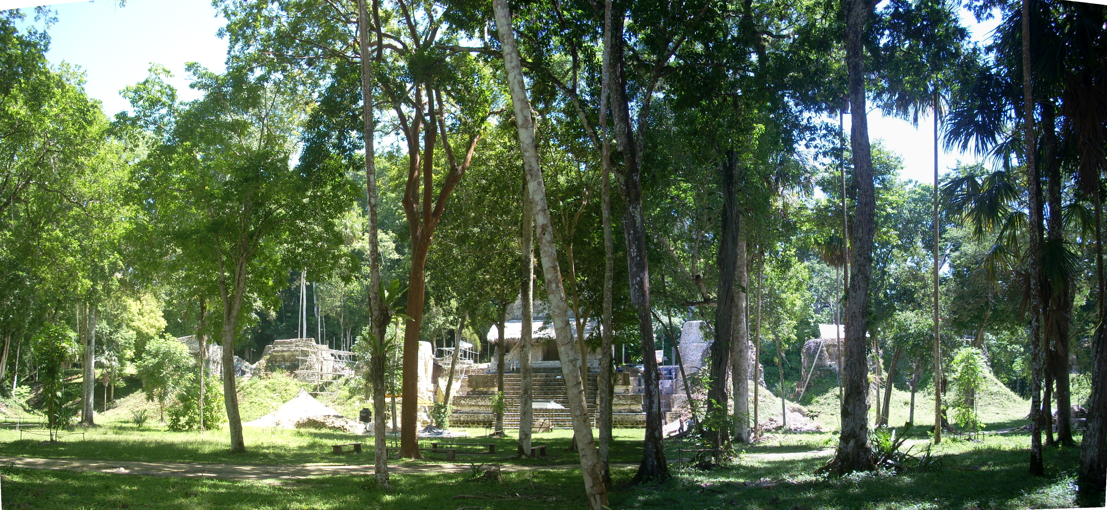 Plaza of the Seven Temples at Tikal, Peten, Guatemala.